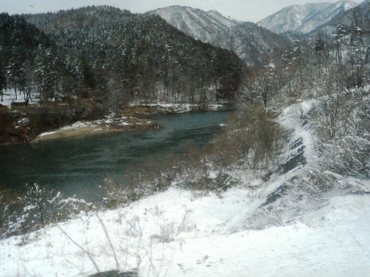 The train window at Yonesaka Line, in March 2010.